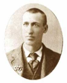 Portrait of "The Brave Engineer": John Luther "Casey" Jones, 1864-1900.